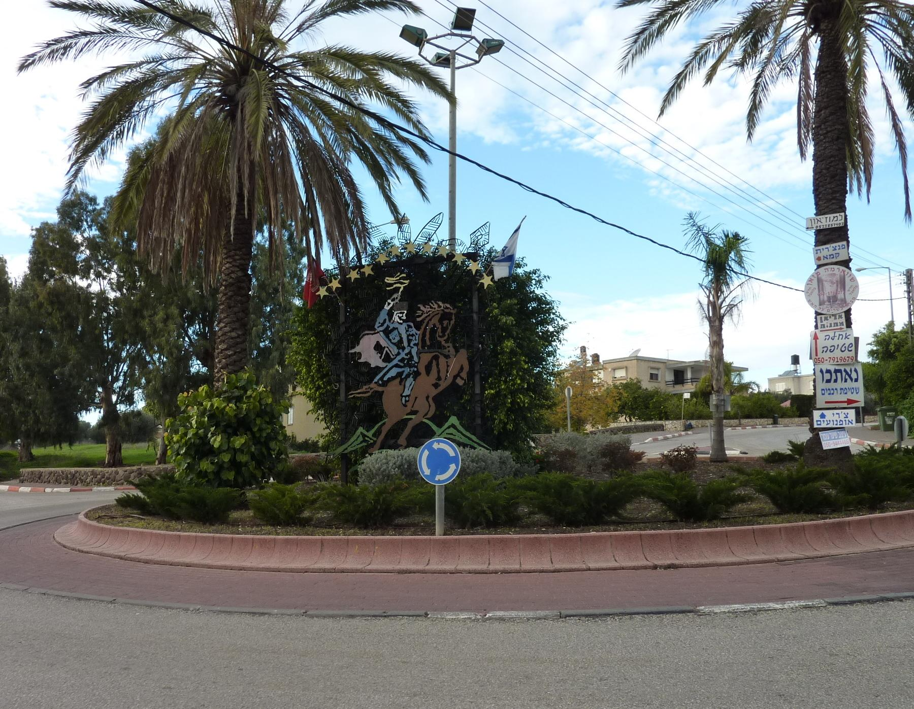 Sosruko square in Kfar Kama israel